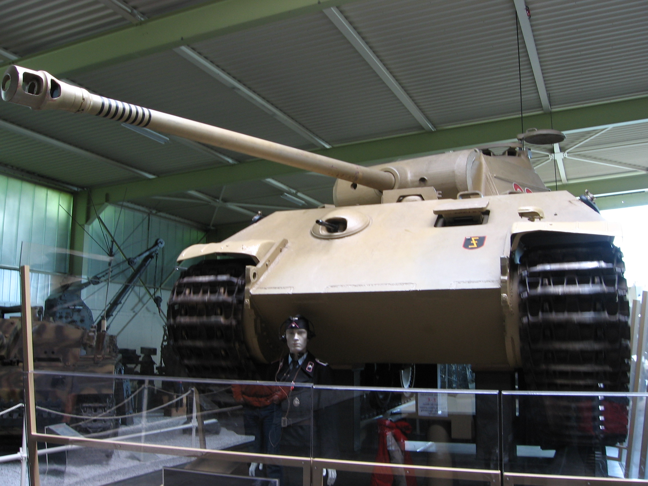 “Special purpose vehicle” of the German Wehrmacht until 1945, here: Sd.Kfz 171, German medium tank V, also Tank V, better known as "Panther", versions: D, A and G (version F, planning only). Actual file: "Panther", Ausf. G (in dessert colour for deployment to German Africa-Corps) with 7.5-cm-KwK 40, exposed at the Auto & Technik Museum, Sinsheim / Germany.